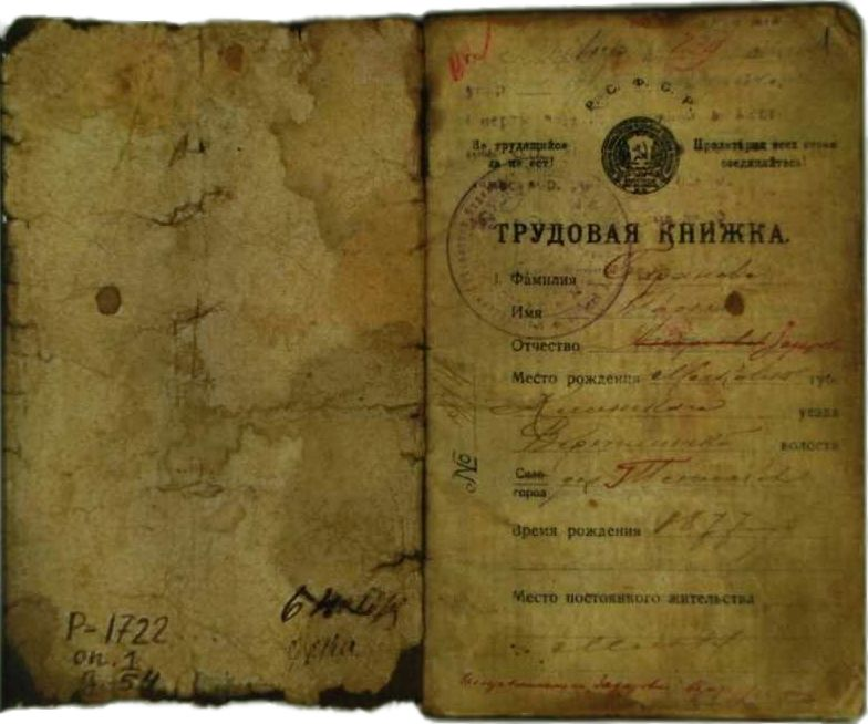 Trudovaya knizhka (Employment Record Book). Russian Soviet Federetive Socialist Republic, 1919